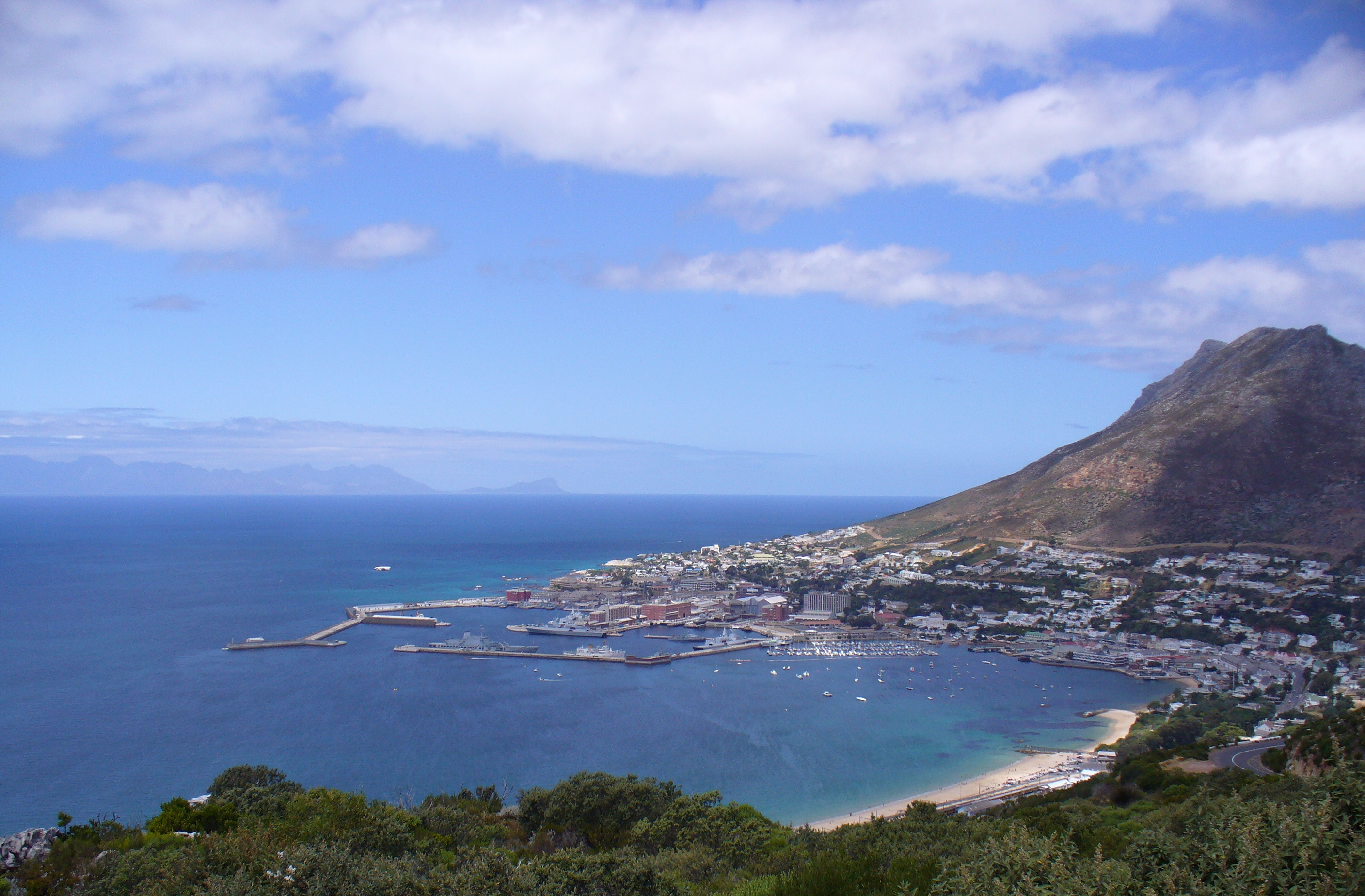 Simonstown harbour from Red Hill